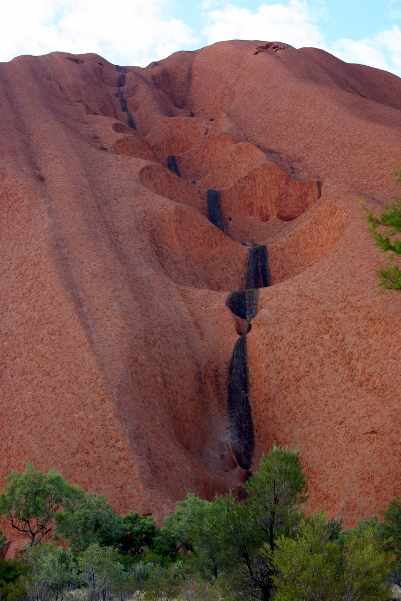 During the rains, water cascades down this eroding the soft sandstone.